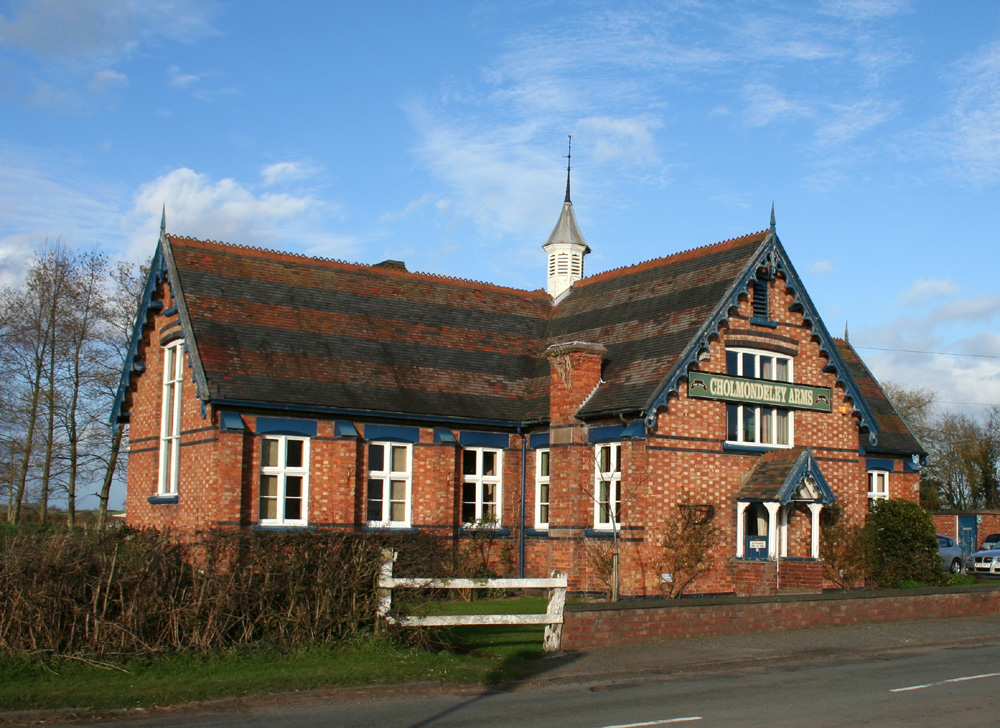 Cholmondeley Arms, near Bickley Moss, Cheshire